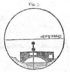 Photo of the site seen through the telescope at the Bedford Level experiment in "Parallax" (1870) Experimental Proofs (with illustrated engravings) that the surface of standing water is NOT CONVEX but HORIZONTAL. William Mackintosh, London.